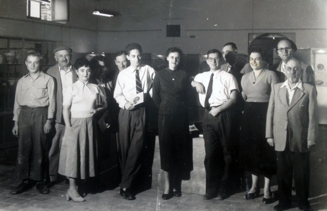 The Staff of the Bezalel National Museum, Jerusalem.